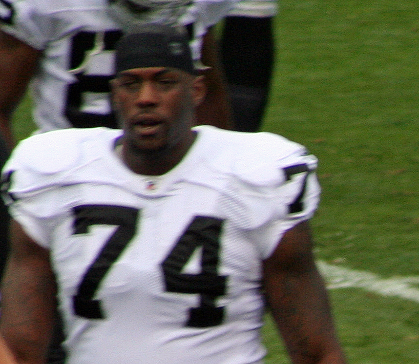 Bruce Campbell, a player on the Oakland Raiders American football team.